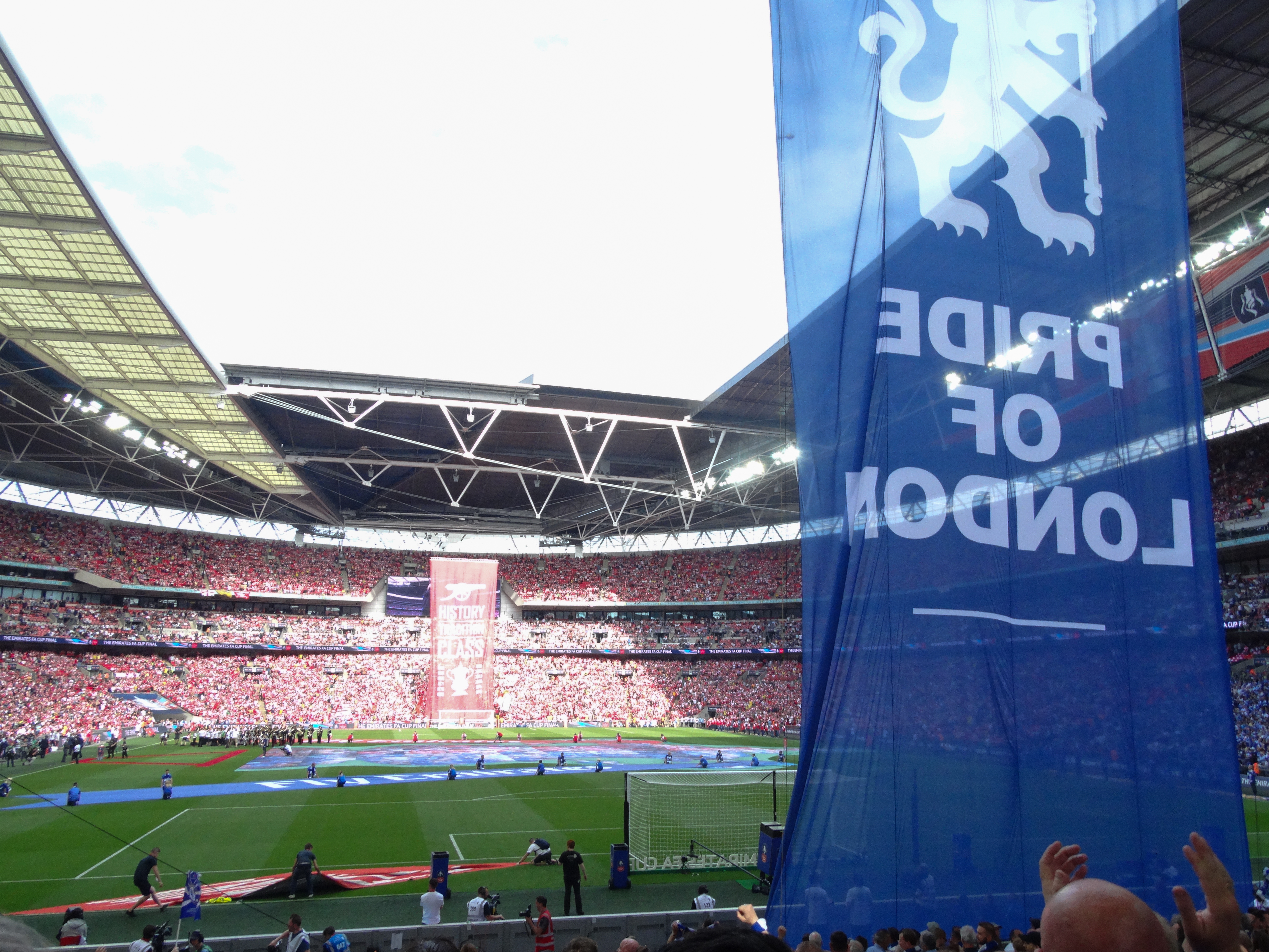 FA Cup Final 27.5.17